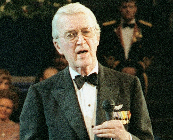 Retired AGEN Omar Bradley is brought onto the ballroom floor at the Kennedy Center by his aide as actor James Stewart speaks to the audience at a celebration on Inauguration Day in Washington D.C., USA.